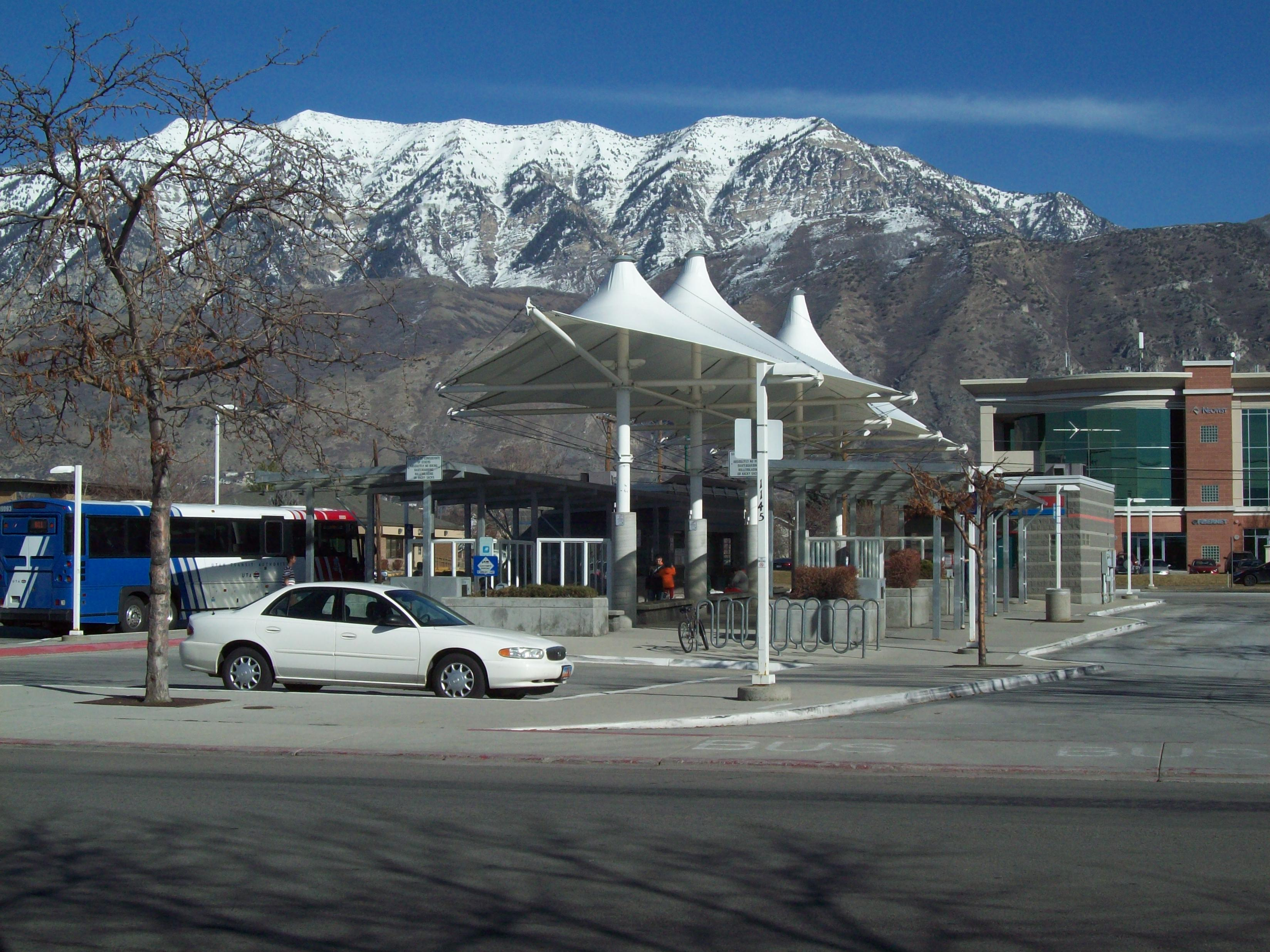 Looking east towards the west side of the Mount Timpanogos Transit Center